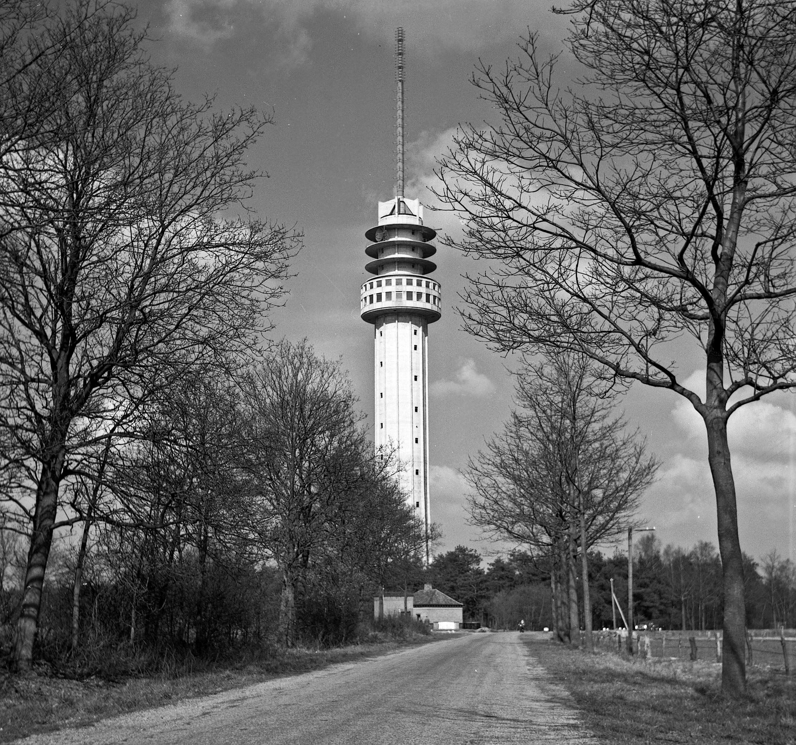 TV tower in Markelo, Netherlands built in 1958